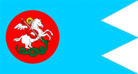 Banner of the 1990s Georgian paramilitary organization known as Mkhedrioni, responsible for war crimes across Georgia.